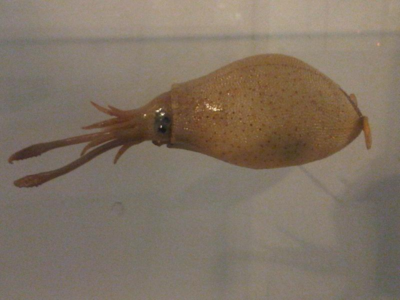 Cranchia scabra model at the Natural History Museum in London, UK.